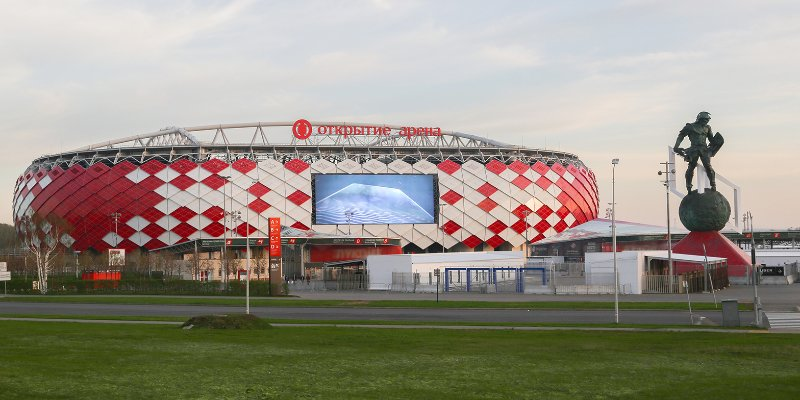 Stadium "Otkrytiye Arena" in Moscow